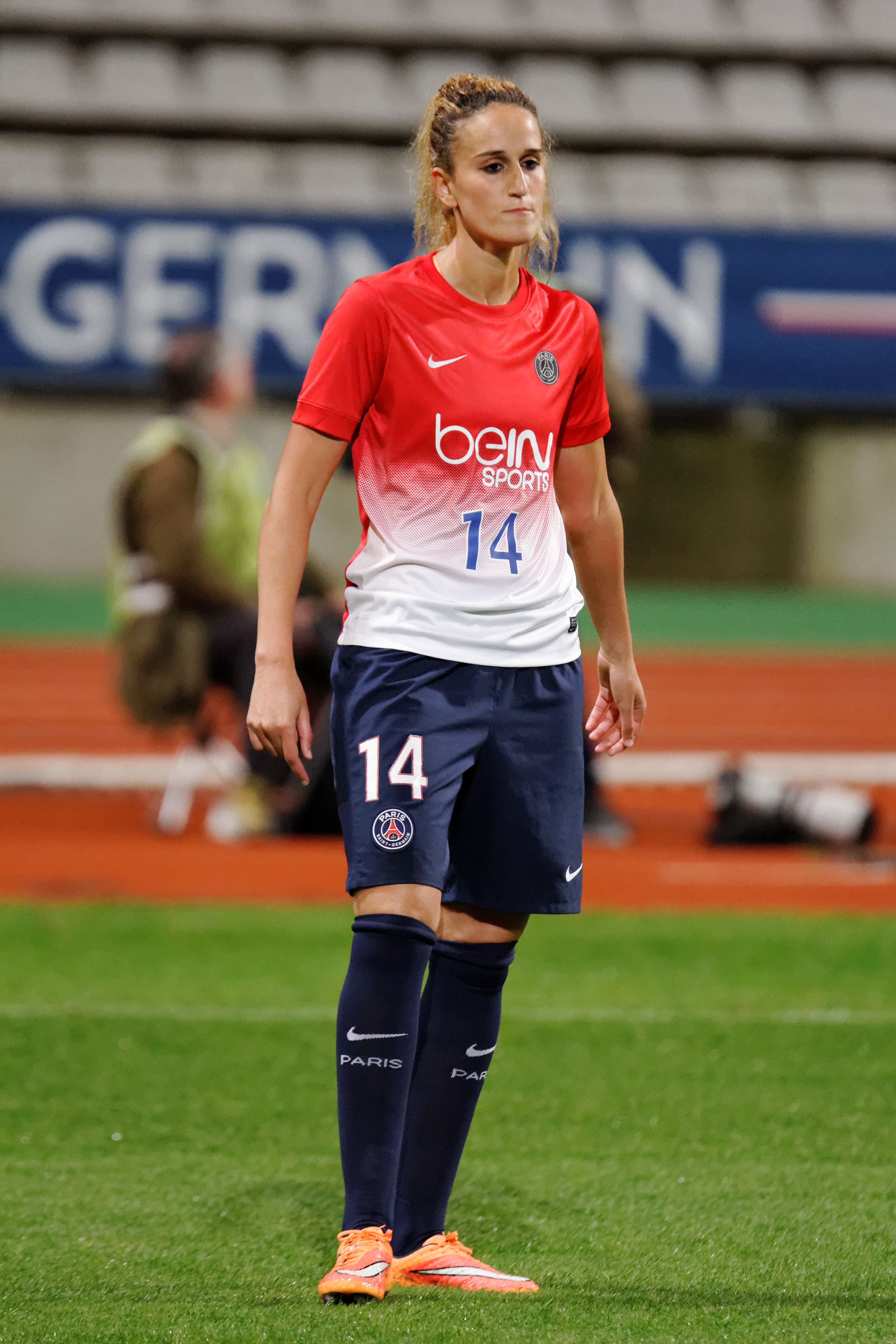 UEFA Women's Champions League, PSG - Twente, 15 October 2014